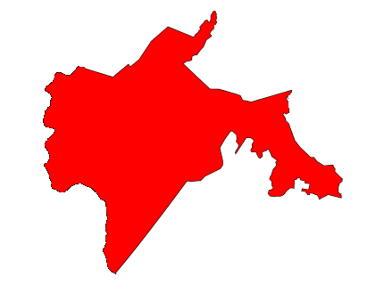 New Jersey's 23rd Legislative District-2011 Apportionment